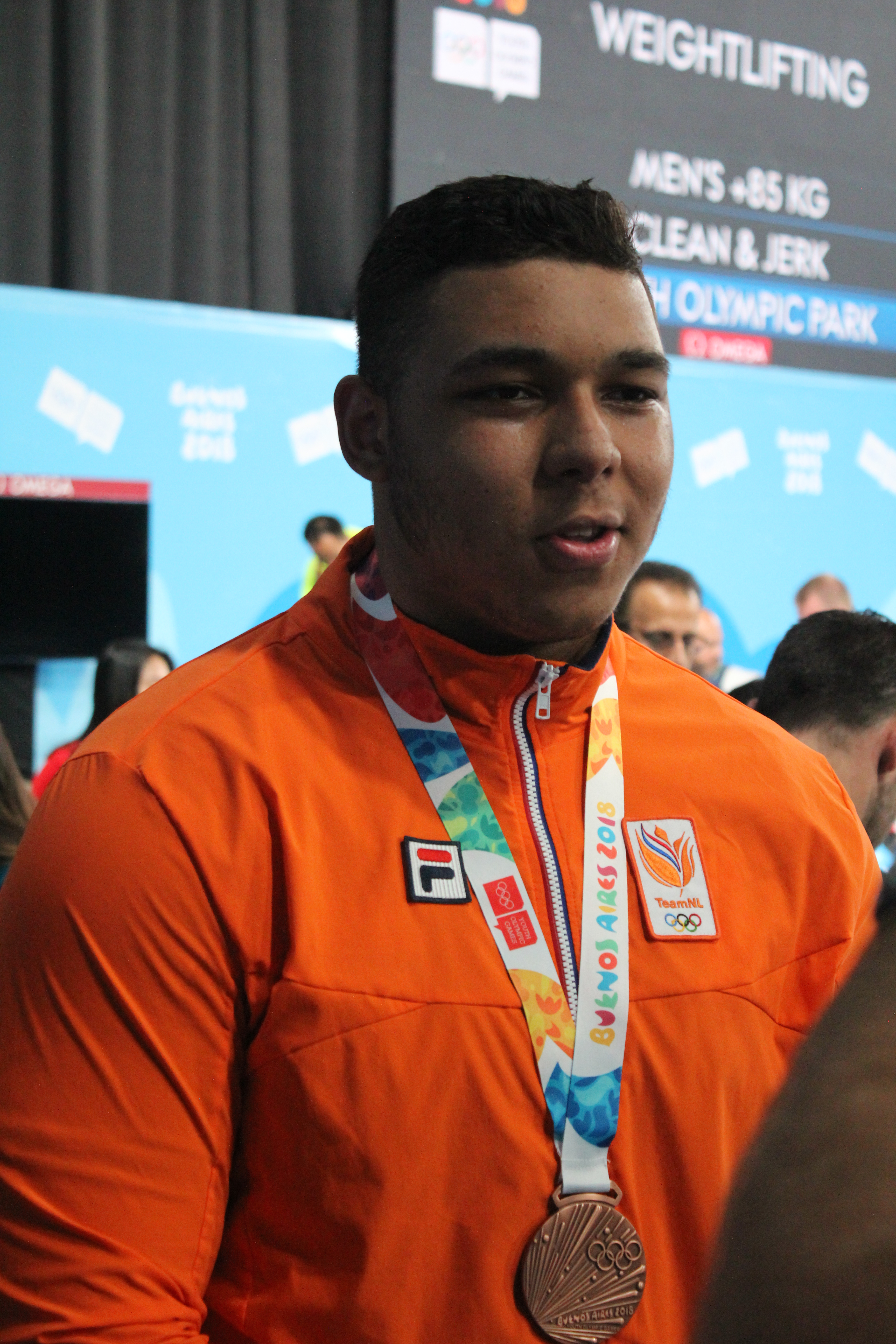 Weightlifting at the 2018 Summer Youth Olympics – Boys' +85 kg.